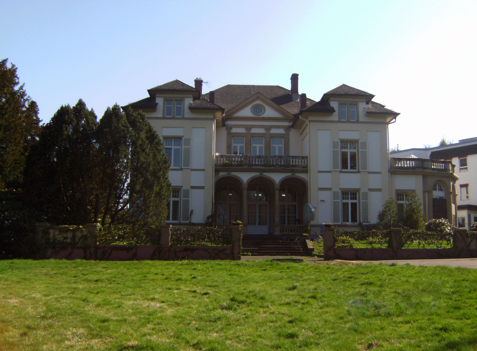 Villa Wertheimber at Gustavsgarten, Bad Homburg